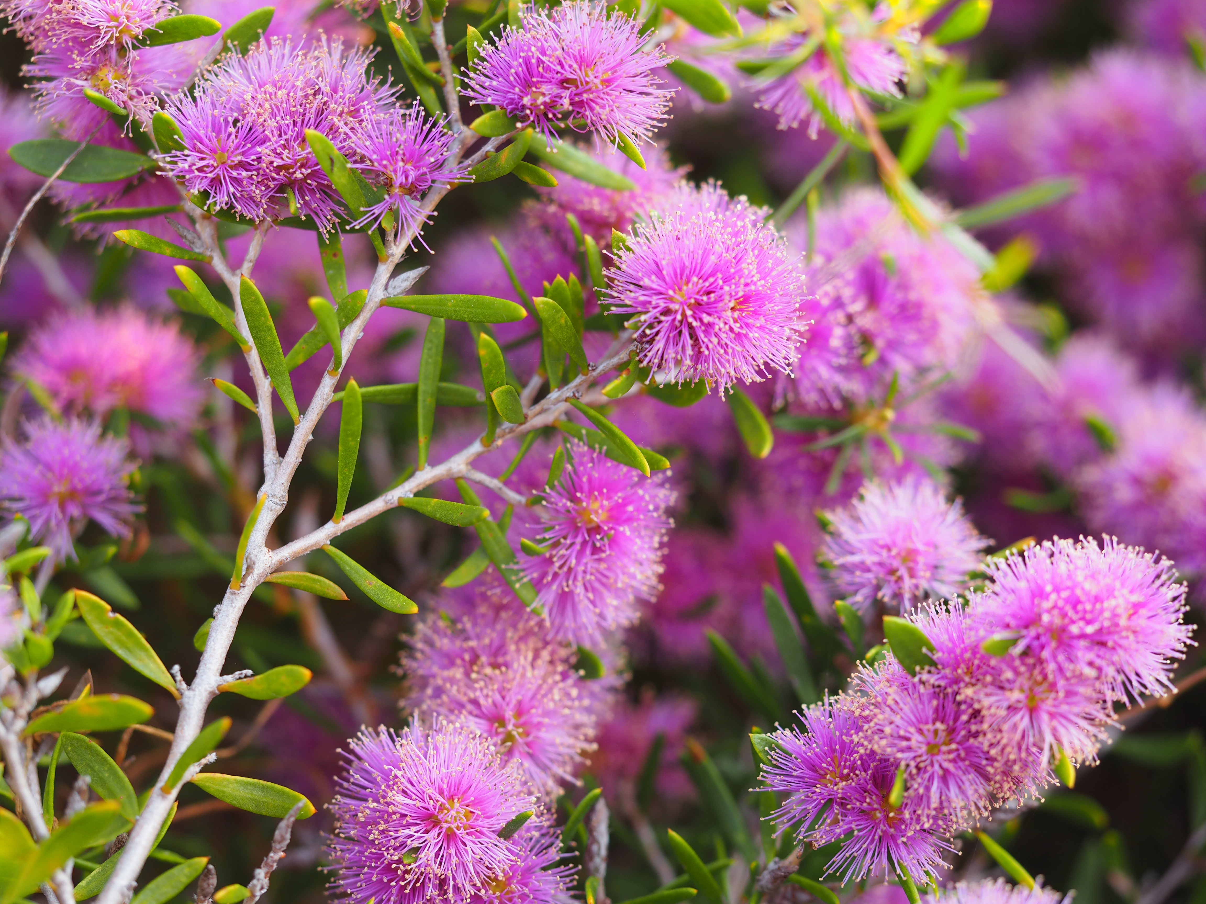 Melaleuca pentagona growing in the Esperance wetlands area